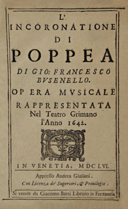 Title page of the 1656 libretto of L'incoronazione di Poppea by Claudio Monteverdi and Giovanni Francesco Busenello. The large "1642" is the year the opera premièred, not the year of publication of the libretto.